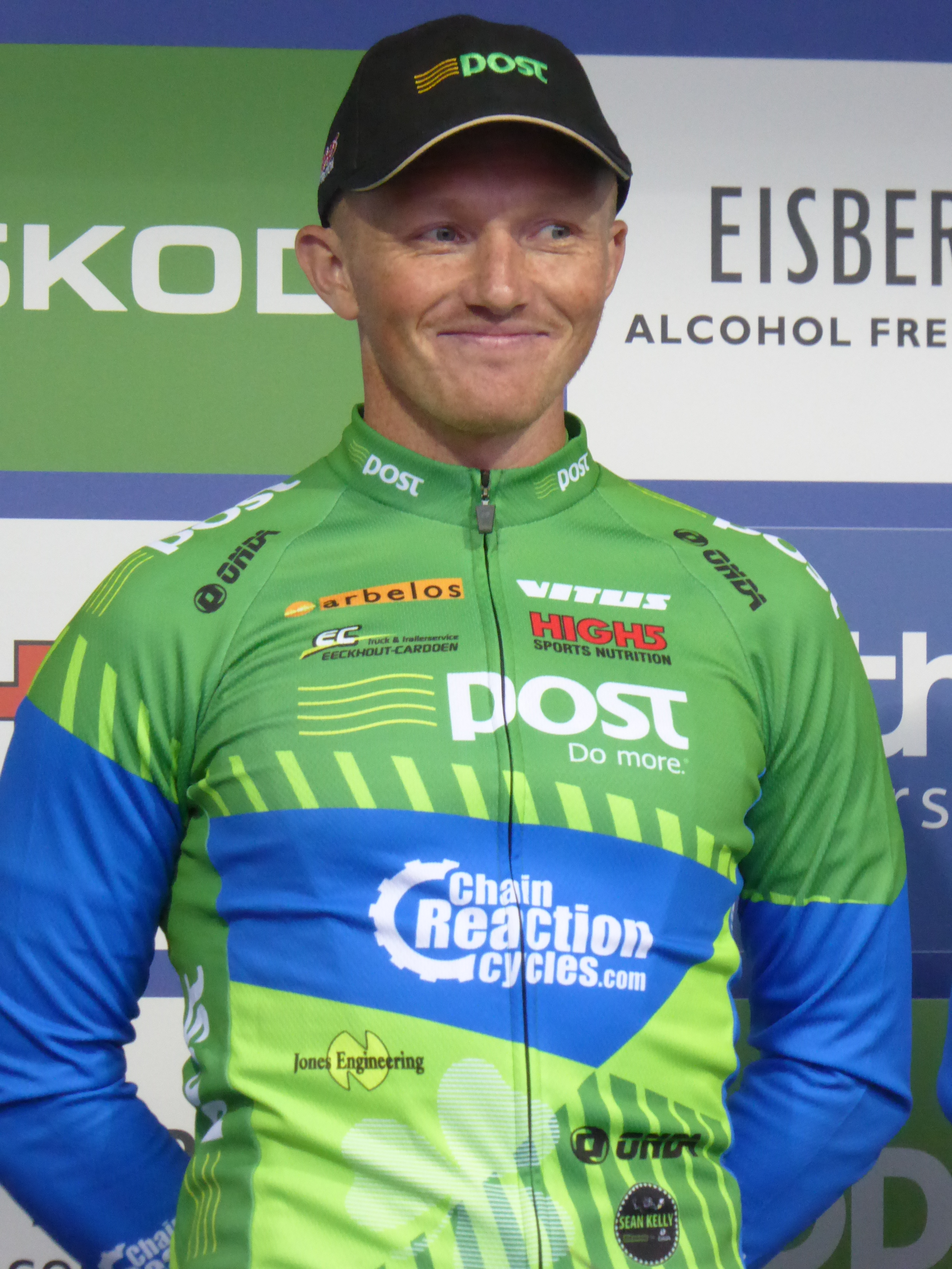 Damien Shaw (An Post-Chain Reaction), pictured at the 2016 Tour of Britain team presentation in Glasgow on 3 September 2016.